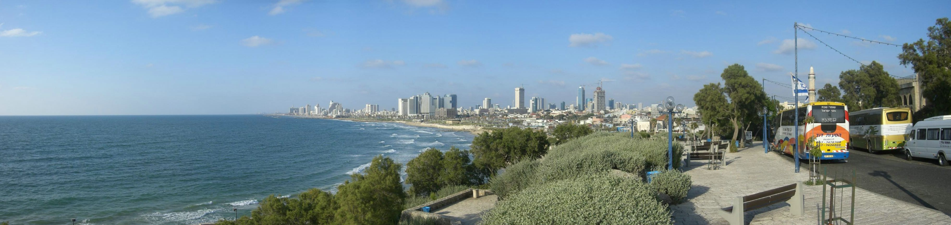 View of Tel Aviv's cost and sky line from the historical quarter of Yaffa